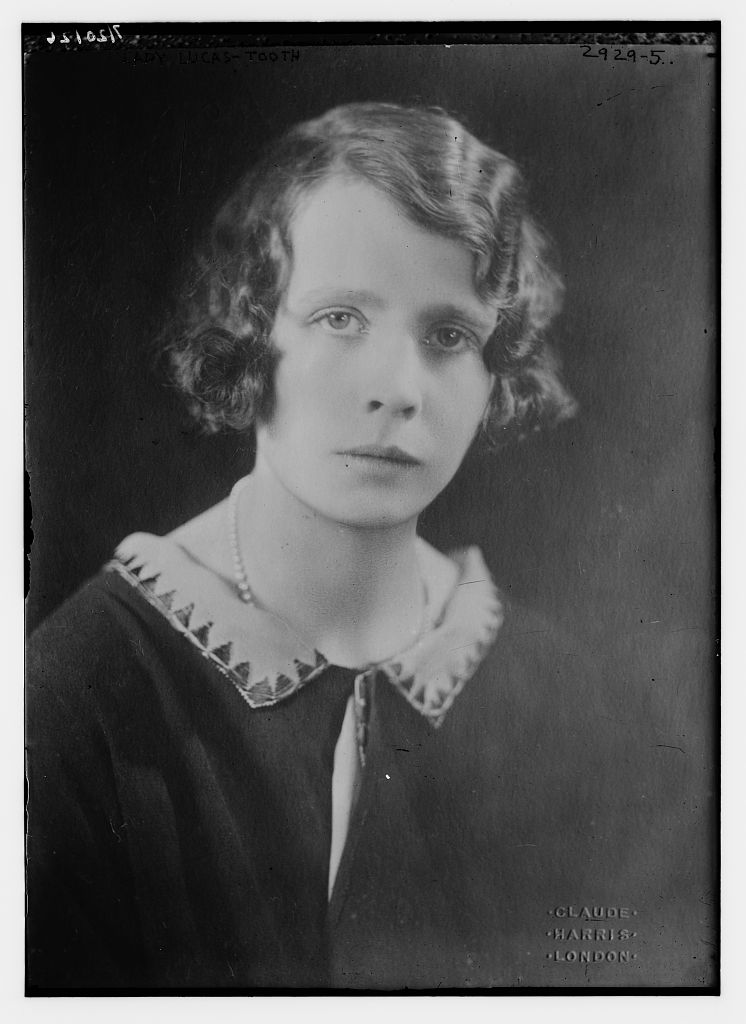 Lady Lucas-Tooth, wife of Sir Archibald Leonard Lucas Lucas-Tooth, 2nd Baronet (1884-1918), Bain News Service, publisher. Lady Lucas - Tooth [between ca. 1910 and ca. 1915] 1 negative : glass ; 5 x 7 in. or smaller. Notes: Title from unverified data provided by the Bain News Service on the negatives or caption cards. Forms part of: George Grantham Bain Collection (Library of Congress). Format: Glass negatives. Repository: Library of Congress, Prints and Photographs Division, Washington, D.C. 20540 USA, General information about the Bain Collection is available at Persistent URL: Call Number: LC-B2- 2929-5